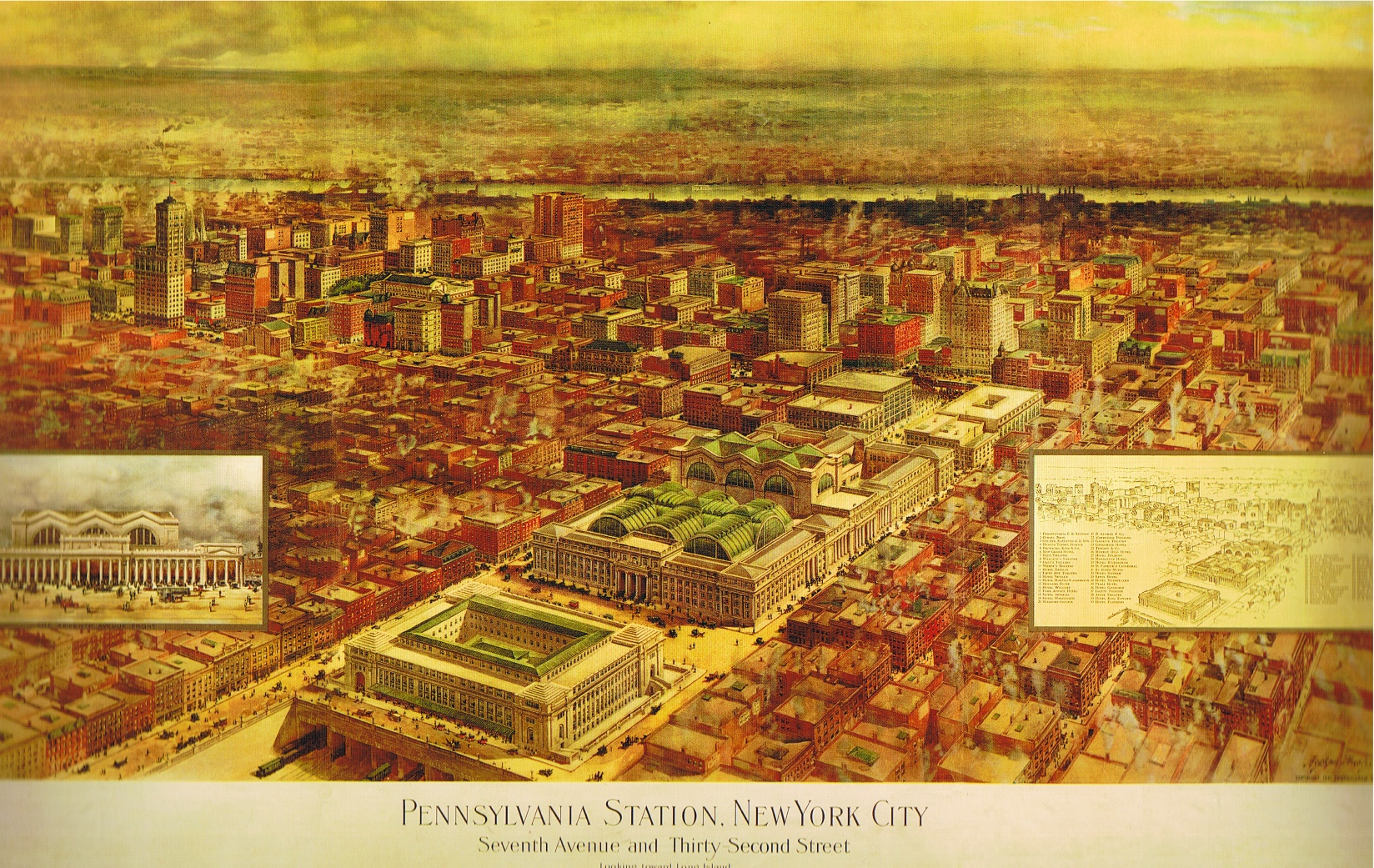 Pennsylvania Station, New York City (incomplete scan; image too large for scanner). The greenish roof of Pennsylvania Station was made from monel